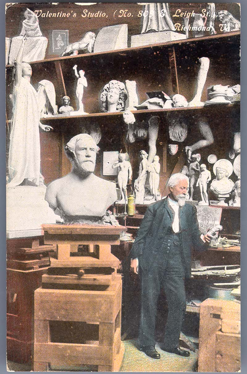 Postcard of sculptor Edward Valentine in his studio in Richmond, Virginia; ca. 1930 or earlier (based on death of Valentine)